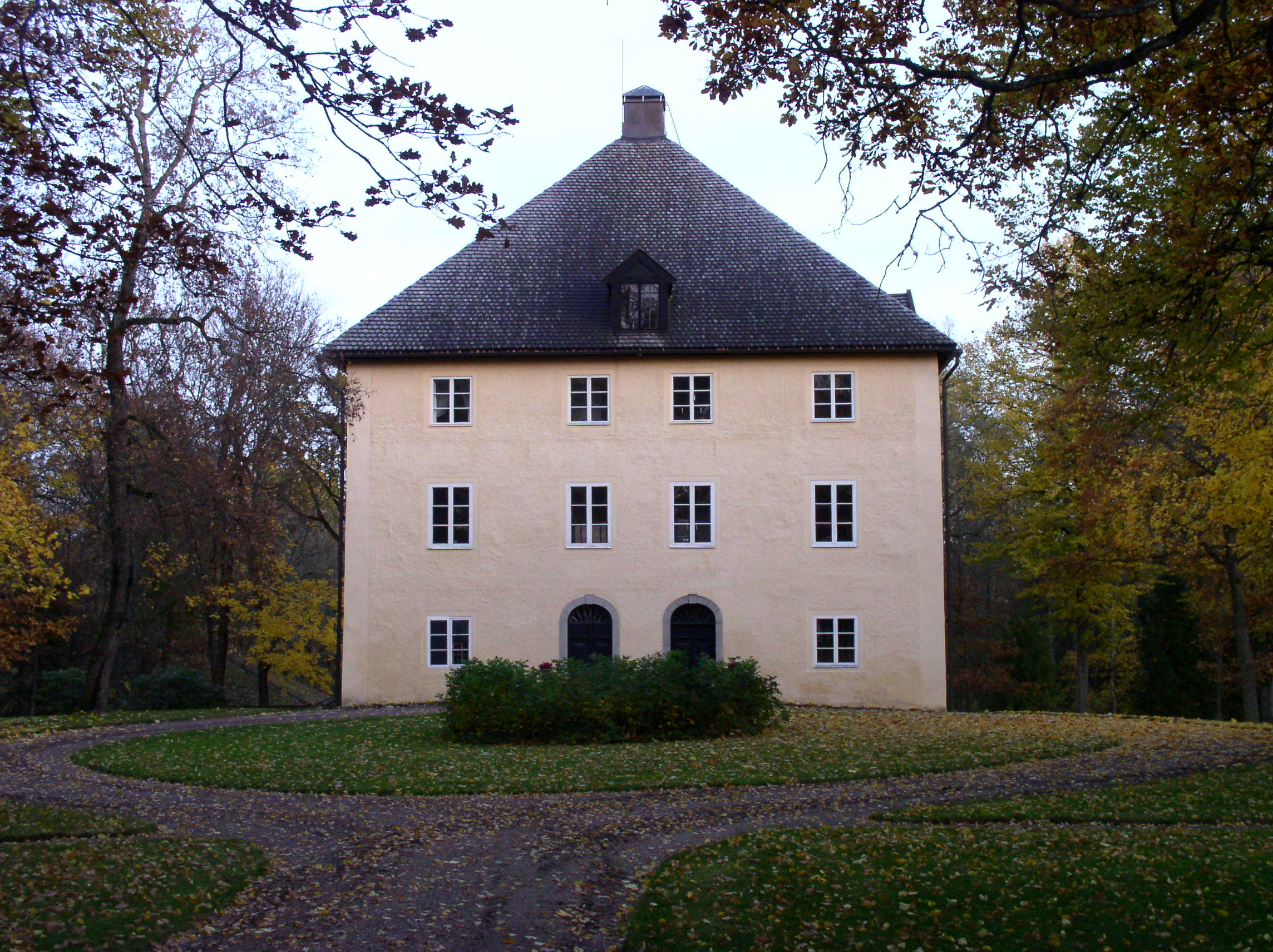 Kankainen manor house (build mid-16th century) in Masku, Finland.